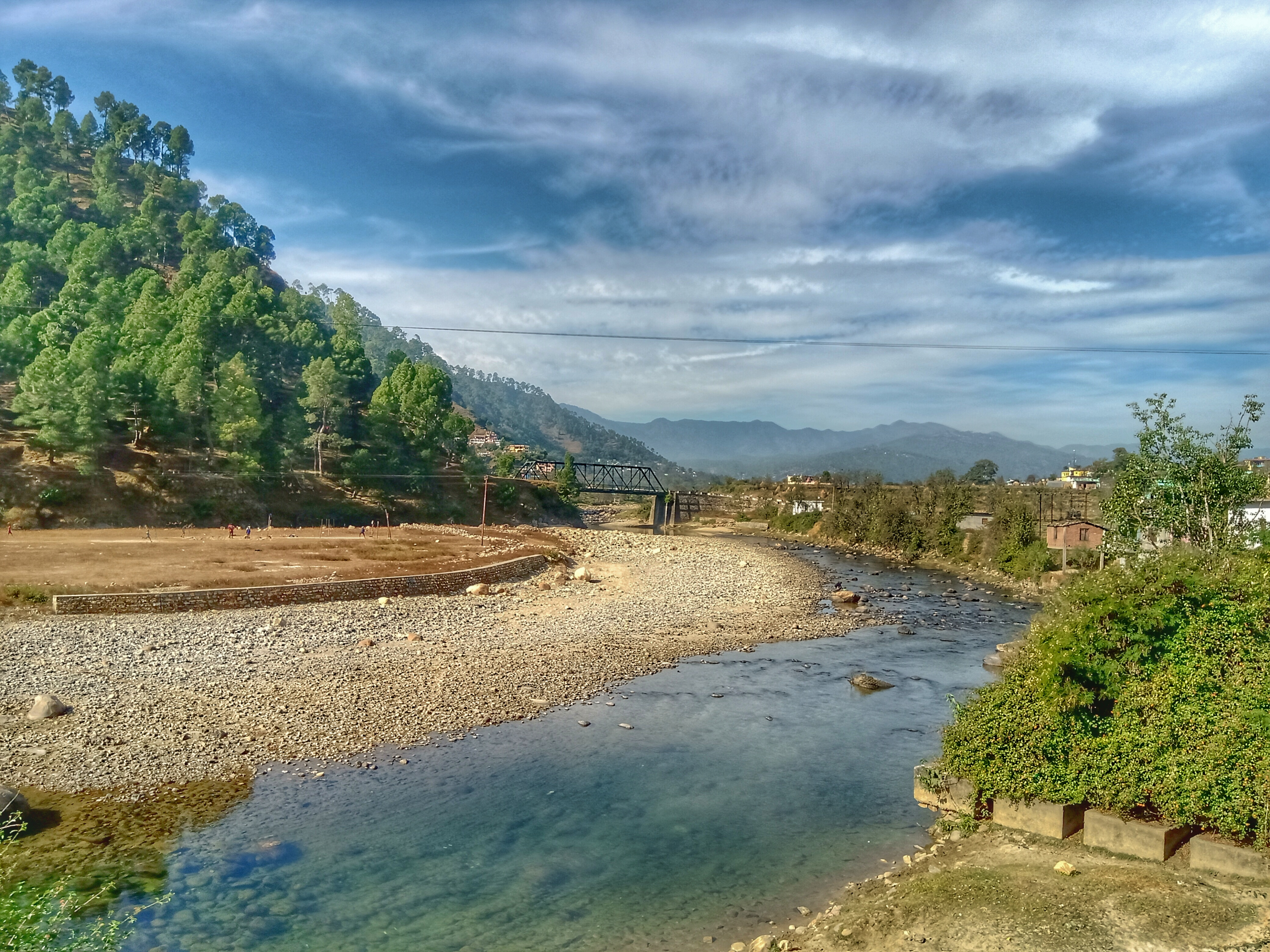 Gomati river view from Bageshwar-Baijnath road.